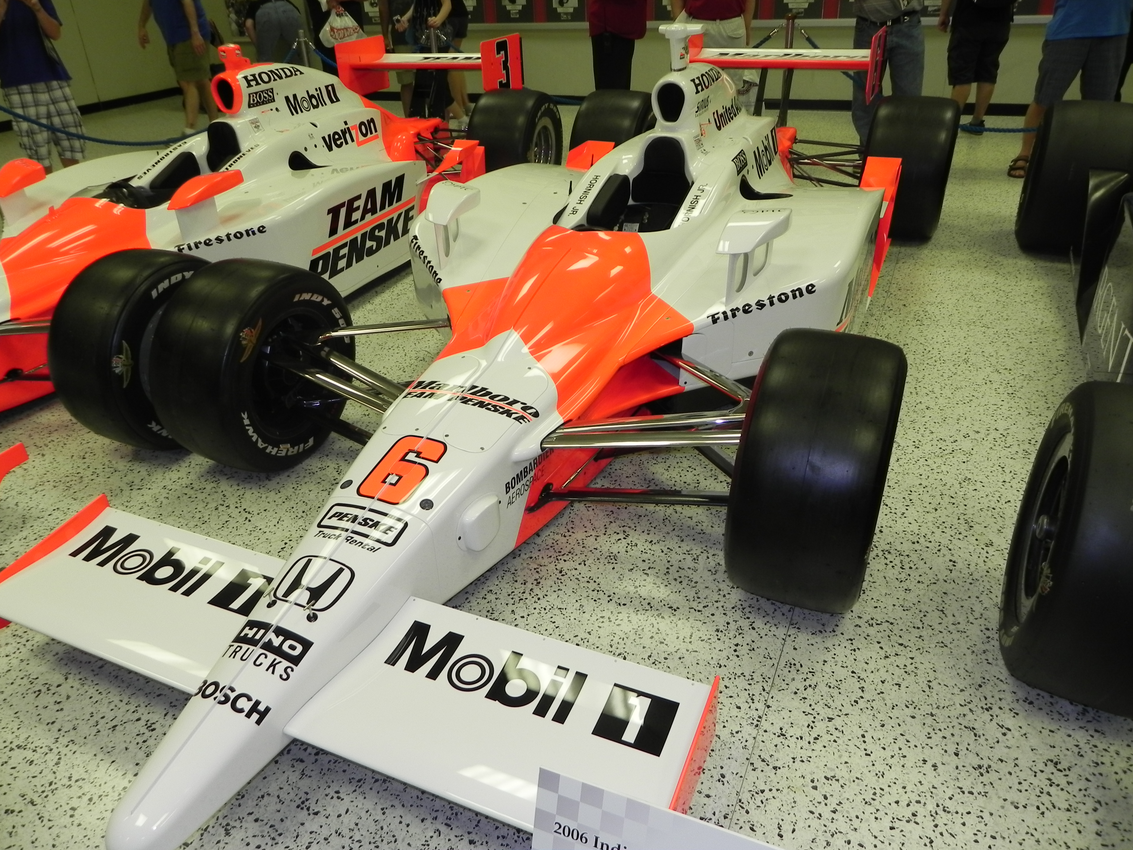 Image of the winning car of the 2006 Indianapolis 500 (Sam Hornish, Jr.). Photo was taken at the Indianapolis Motor Speedway Hall of Fame Museum, during the month of May 2011, at the 100th Anniversary "Ultimate Indianapolis 500 Winning Car Collection."